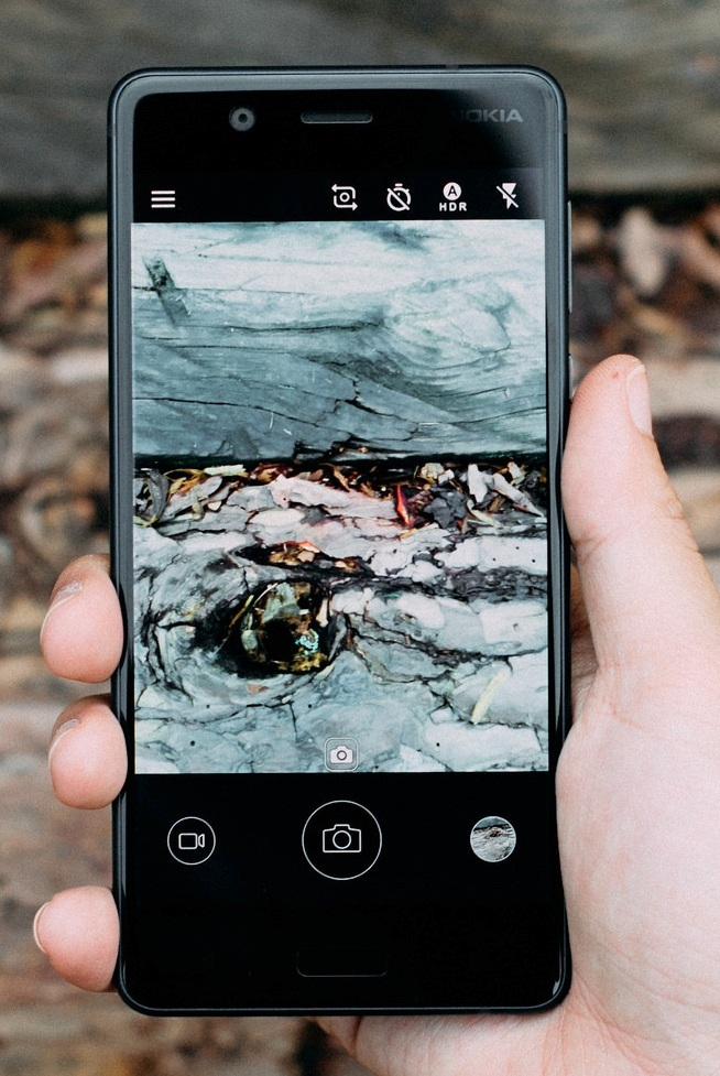 Nokia 6